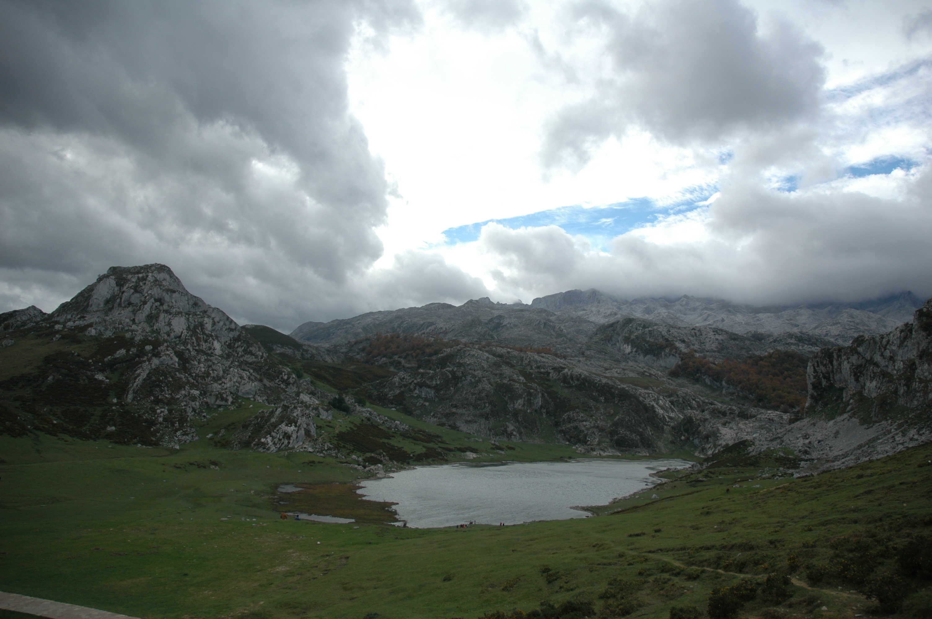 Lake Ercina at Covadonga (Asturias - Spain)